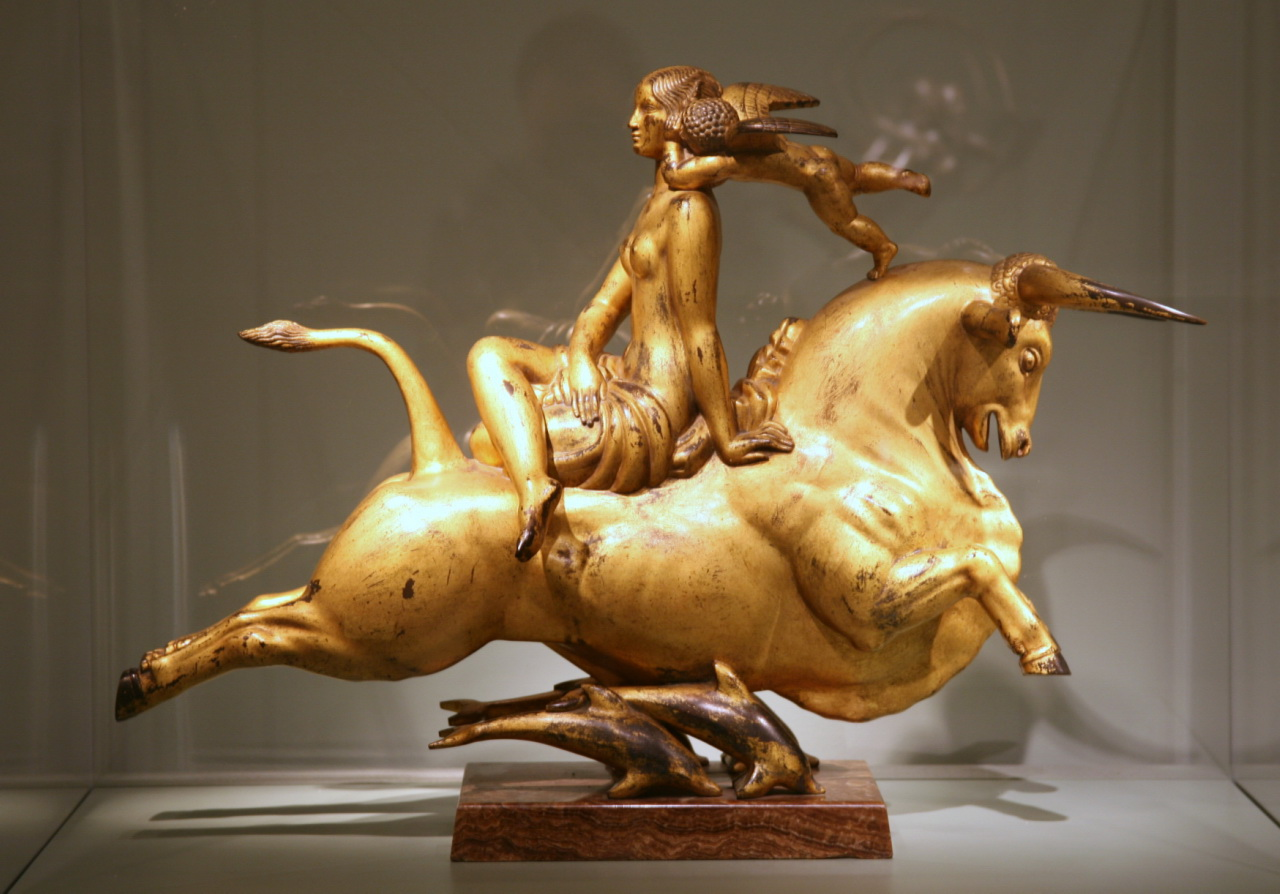 Bronze sculpture with gold leaf by American sculptor Paul Manship.